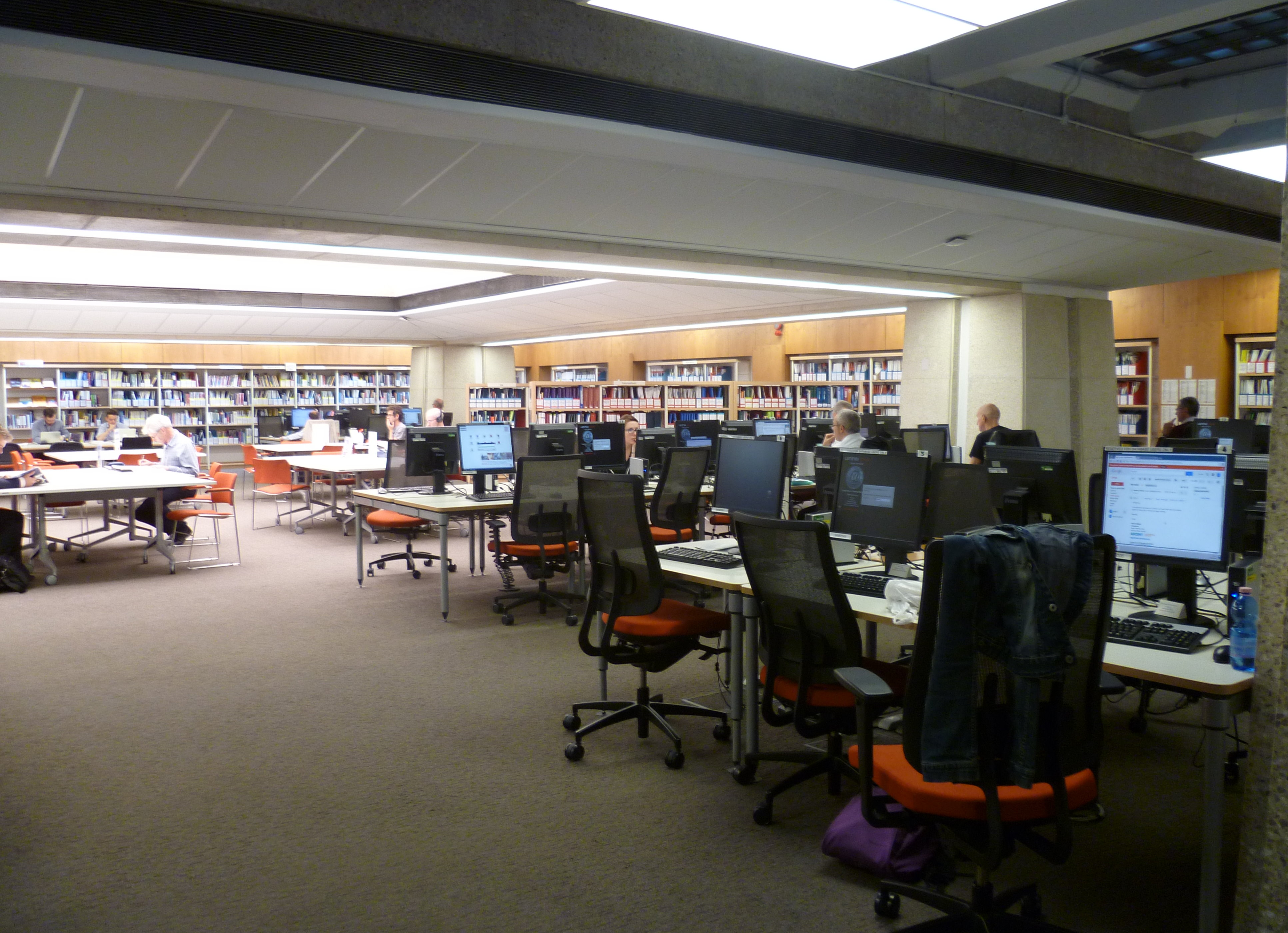 Guildhall Library, London